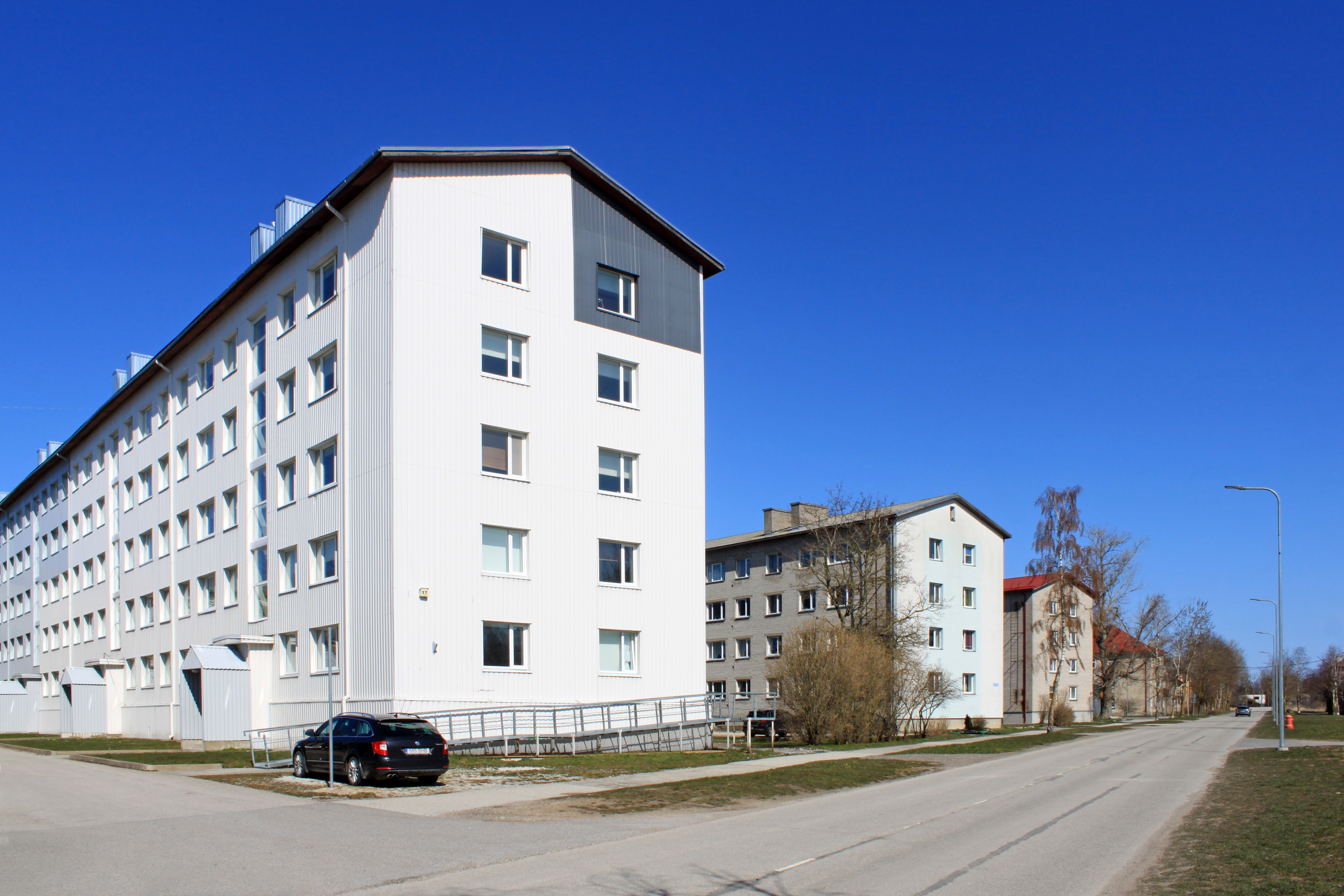 Sadama street in April, Paldiski, Estonia